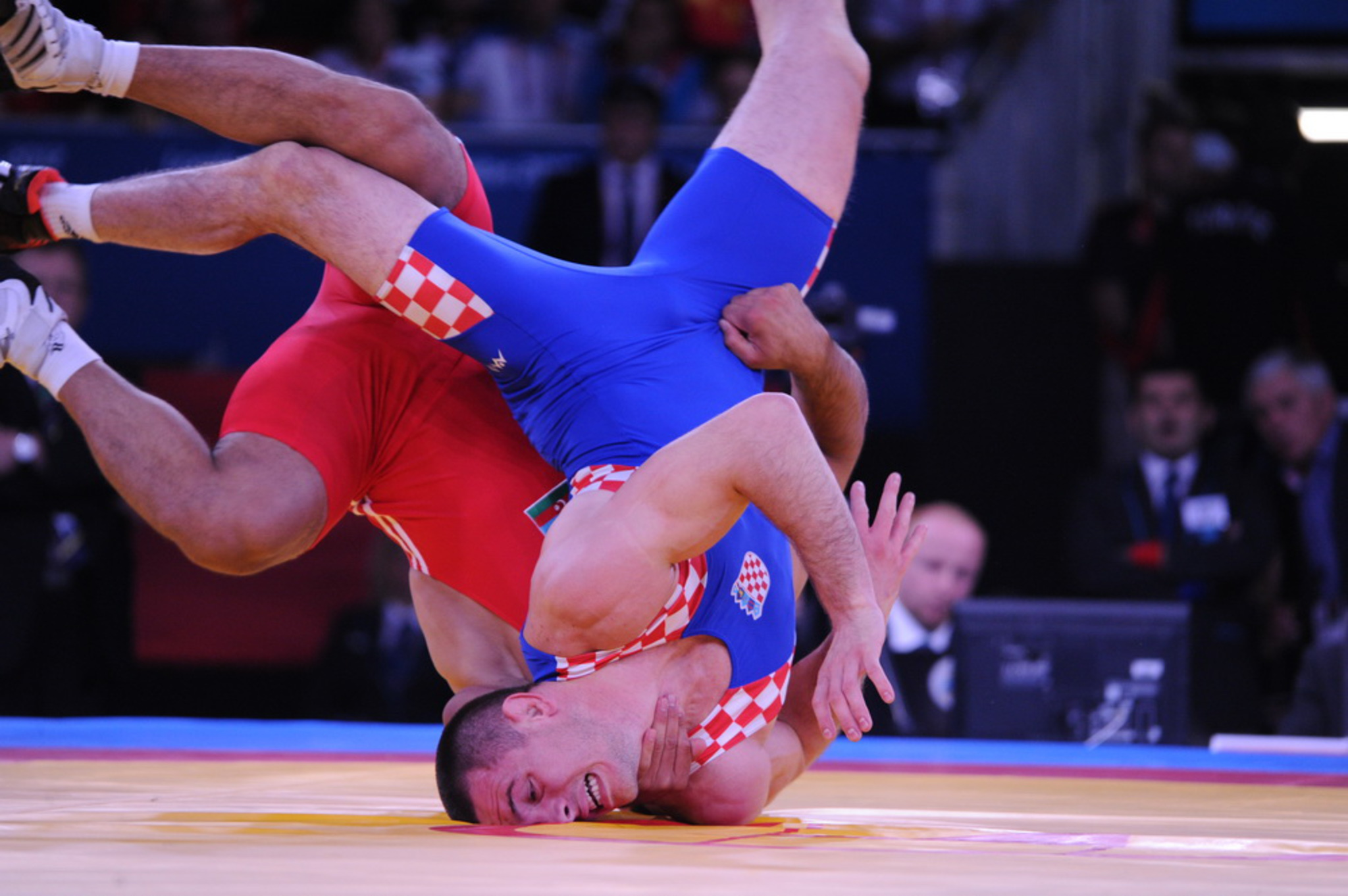 Emin Ahmadov. Greco-Roman wrestling competition of the London 2012 Games